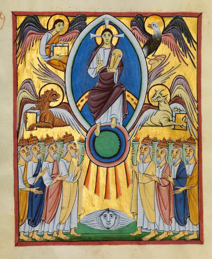 Folio 10v of the Bamberg Apocalypse